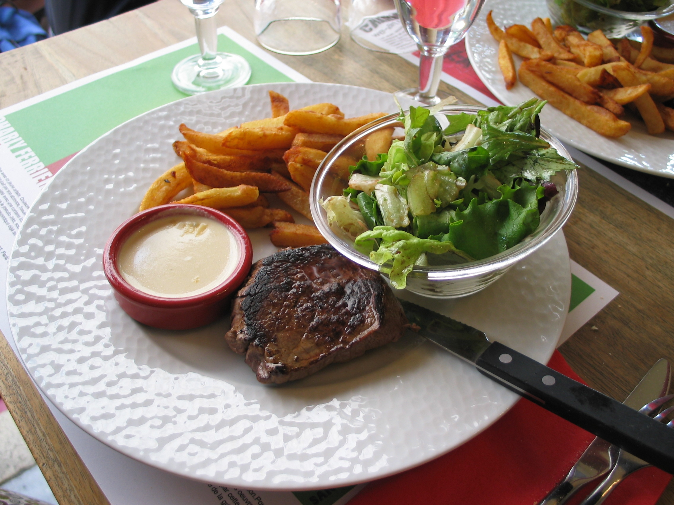 Rump steak